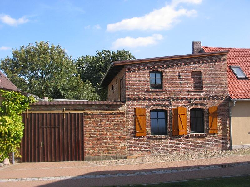 House in Niemegk. The town Niemegk is a part of the Potsdam Mittelmark, state Brandenburg, Germany.